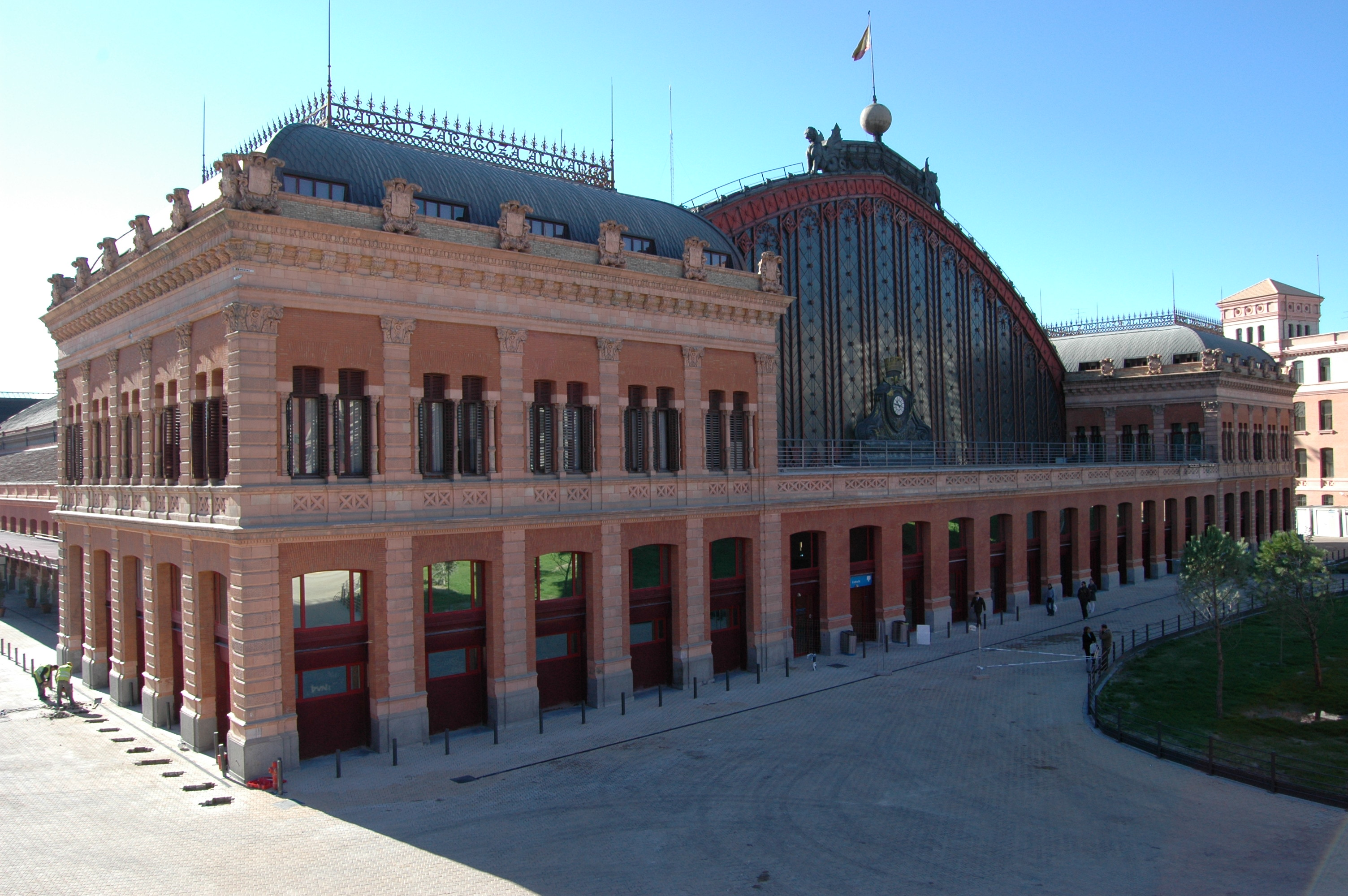 North-west façade of Atocha railway station in Madrid (Spain). Building was designed in 1888 by architect Alberto de Palacio y Elissague (1856–1936) and engineer Henry Saint James, and built from 1890 to 1892.